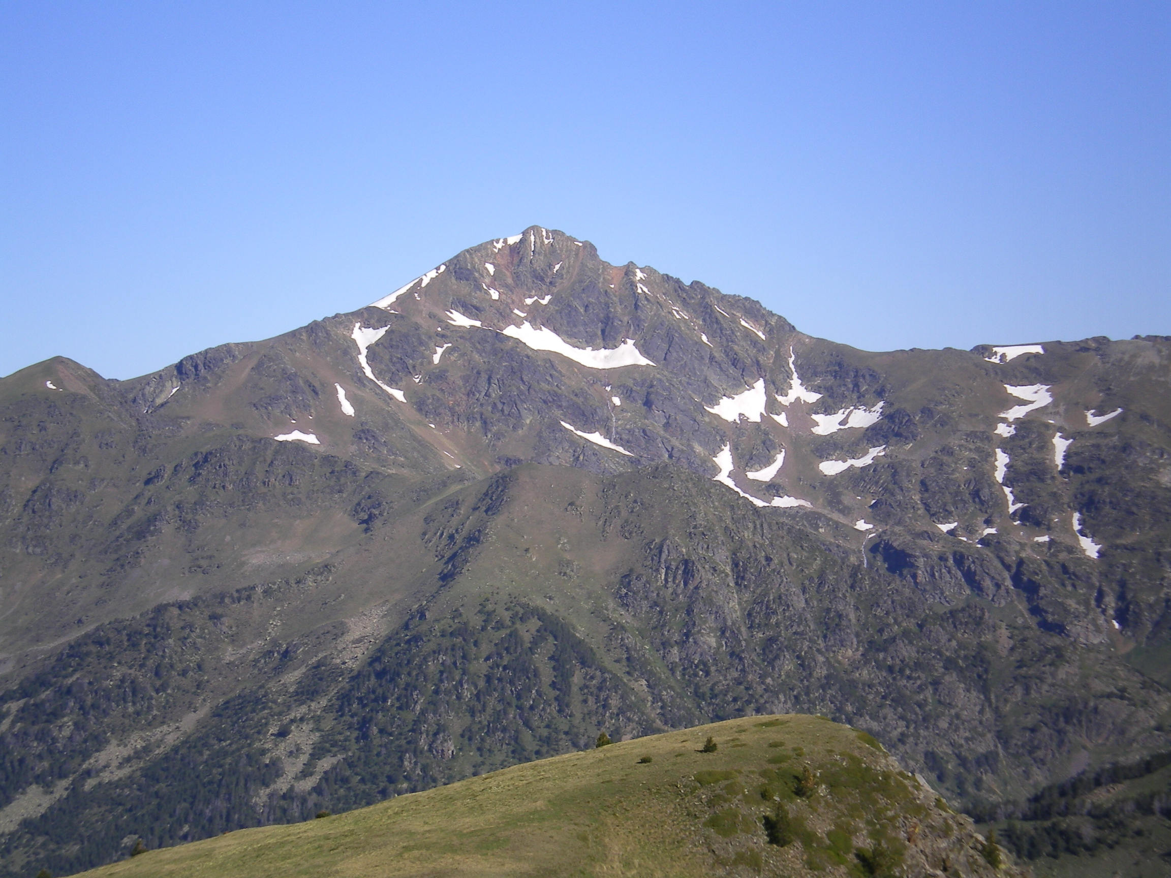 Pic de la Font Blanca. Andorra.